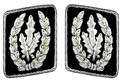 Rank insignia of the SS, here collar patch (both collar points) to „Reichsführer-SS“ until 1945.